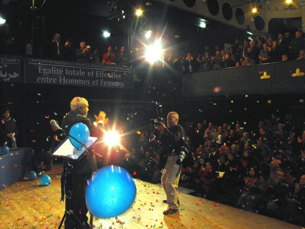 Ahmed Brahim, first secretary of the Tunisian political party Ettajdid, during a meeting held in Tunis